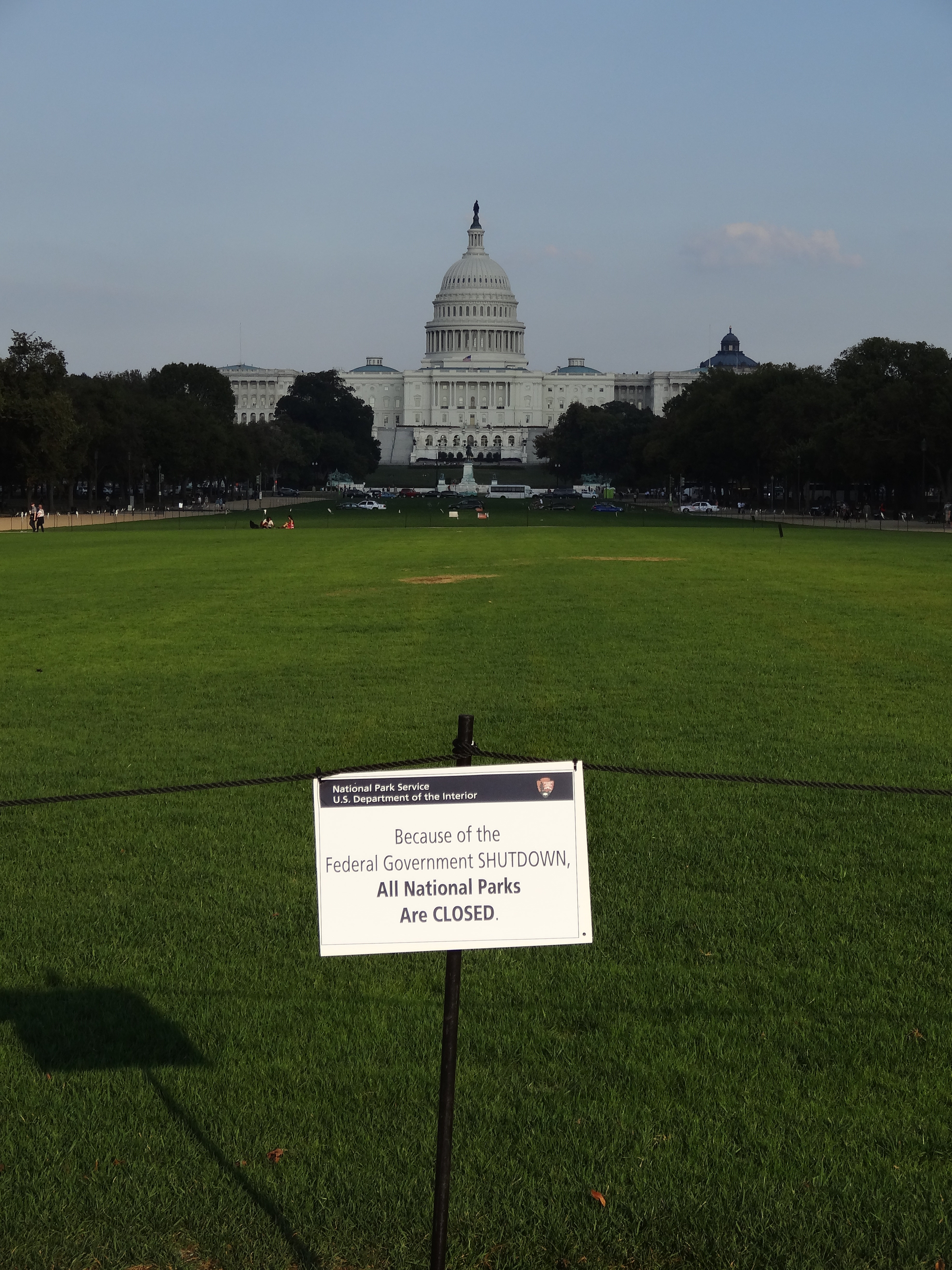 The lawn of National Mall with US Capitol in the background. The lawn was gated and closed during the US government shutdown of 2013.